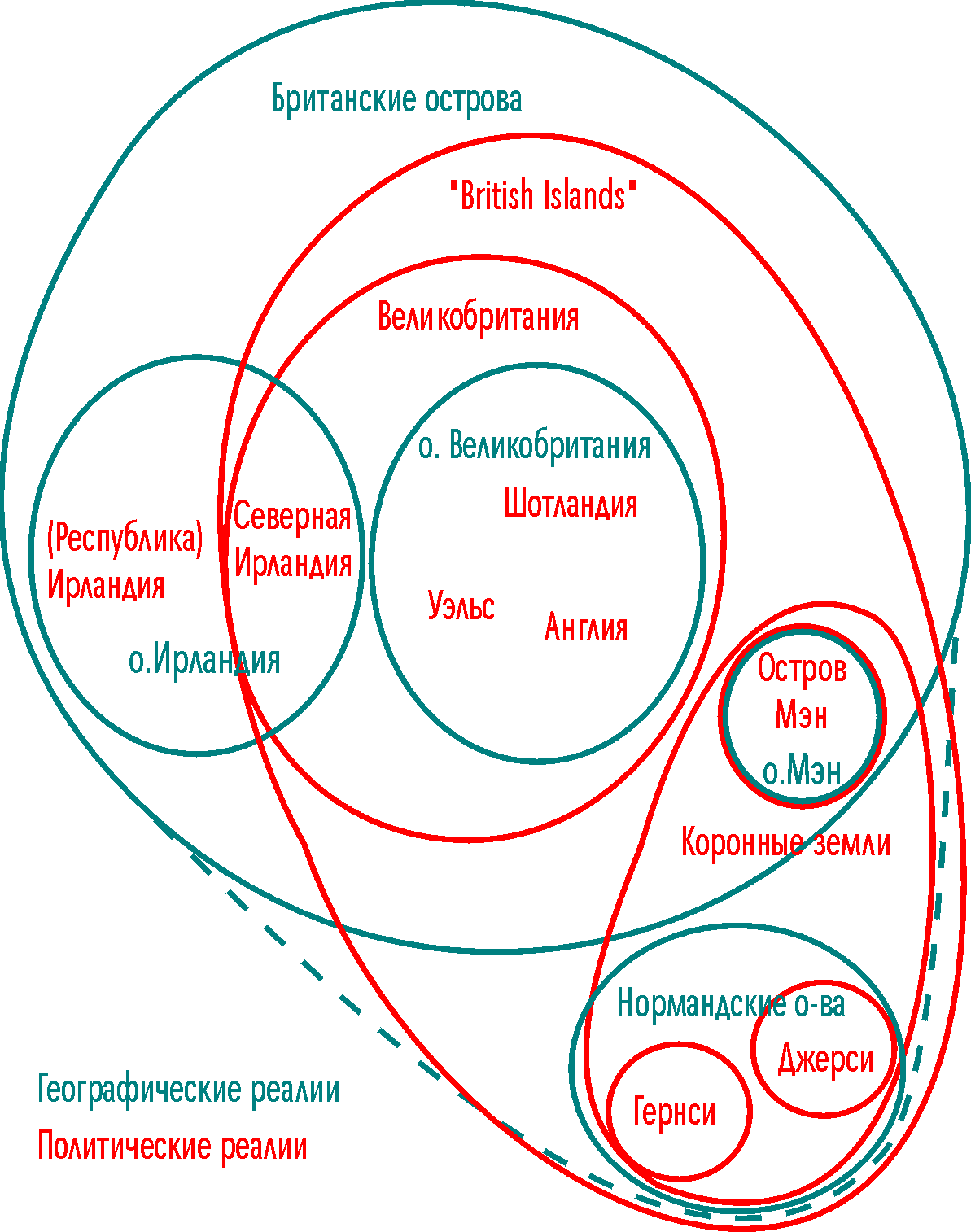 see above